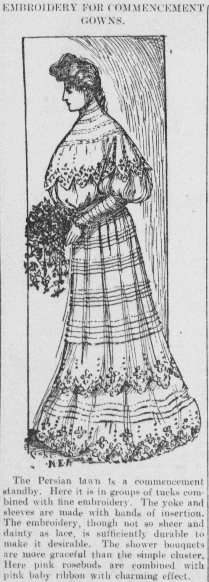 this 1904 fashion vignette depicted how a commencement gown could be made from lawn cloth, with many other keywords to transcribe. Text: The Persian lawn is a commencement standby. Here it is in groups of tucks combined with fine embroidery. The yoke and sleeves are made with bands of insertion. The embroidery, thought not so sheer and dainty as lace, is sufficiently durable to make it desirable. The shower bouquets are more graceful than the simple cluster. Here pink rosebuds are combined with pink baby ribbon with charming effect.